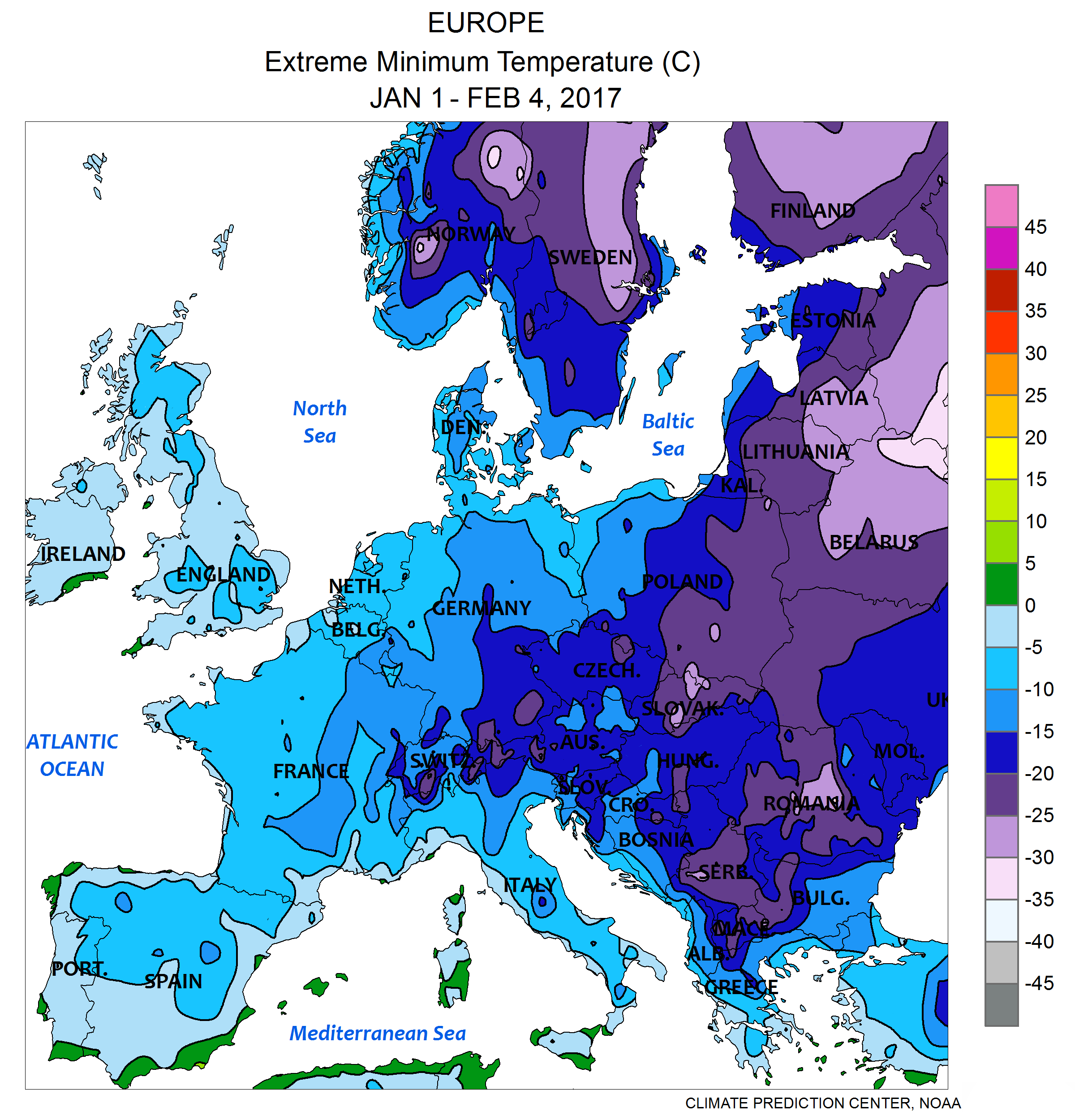 Europe: Extreme minimum temperature January 1 - February 4, 2017, computer generated contours, based on preliminary data; 5 weeks combined (cropped),January 2017 European cold wave.